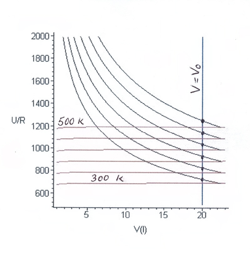 Adiabatic and isothermal curves for a Van der Waals gas with the parameters of N2 (data from H.B.Callen, Thermodynamics, Appendix D)